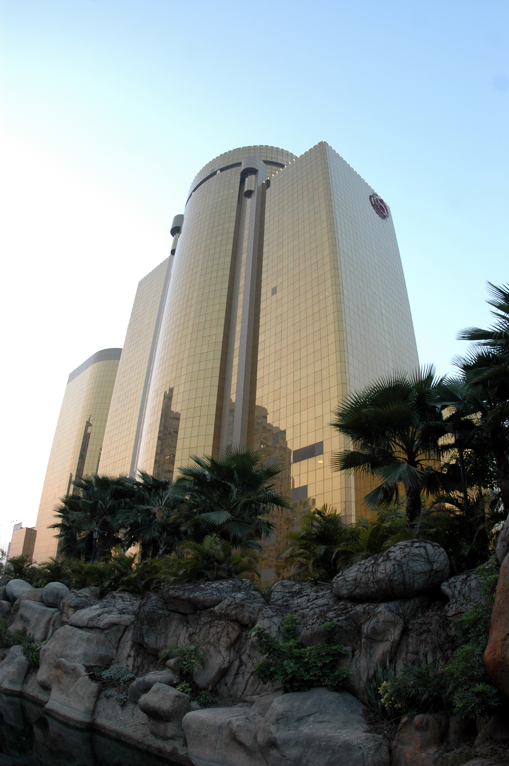 The Sheraton in Xiamen China